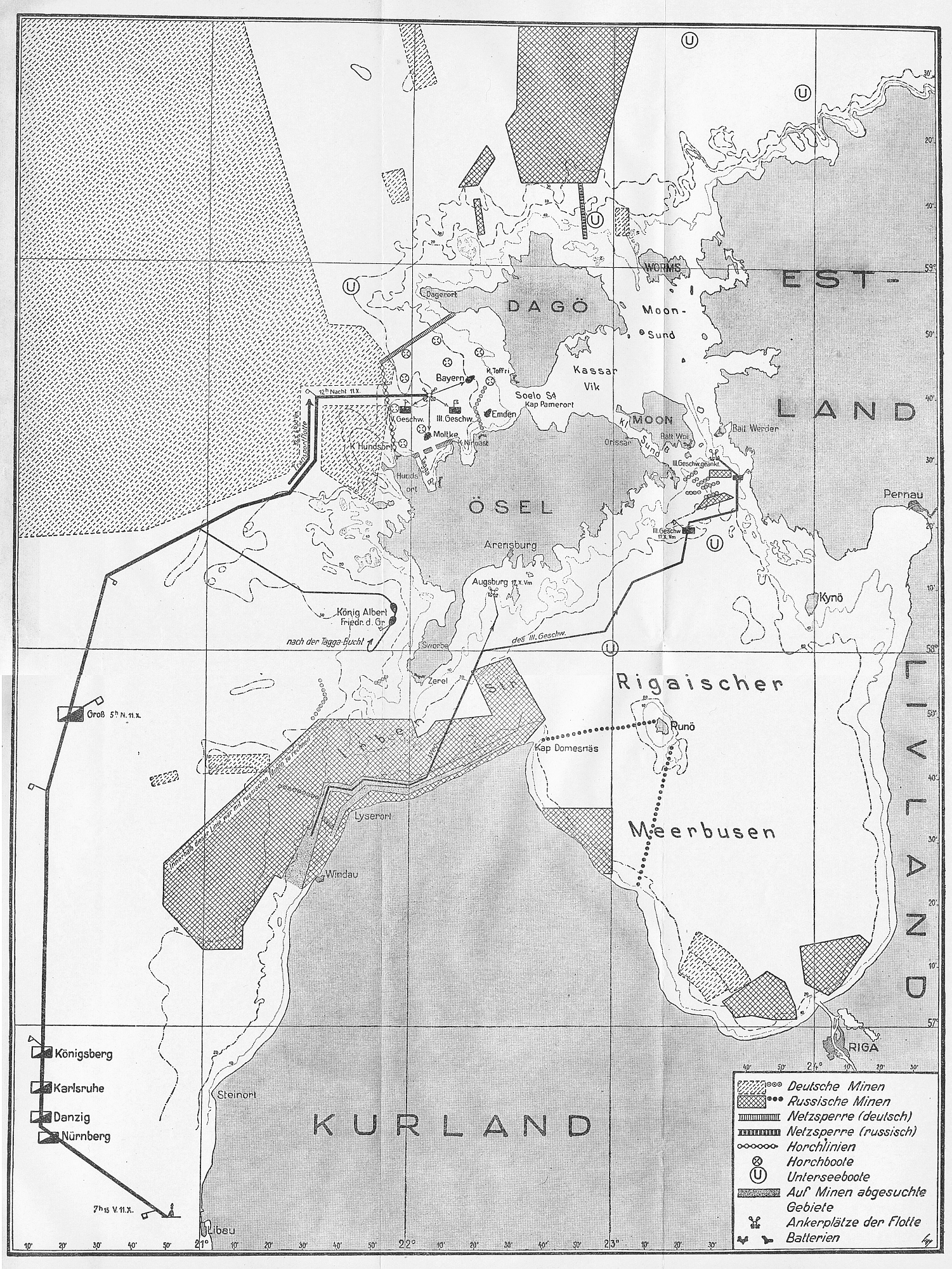 Map showing the minefields, batteries and ship movements during Operation Albion in October 1917.